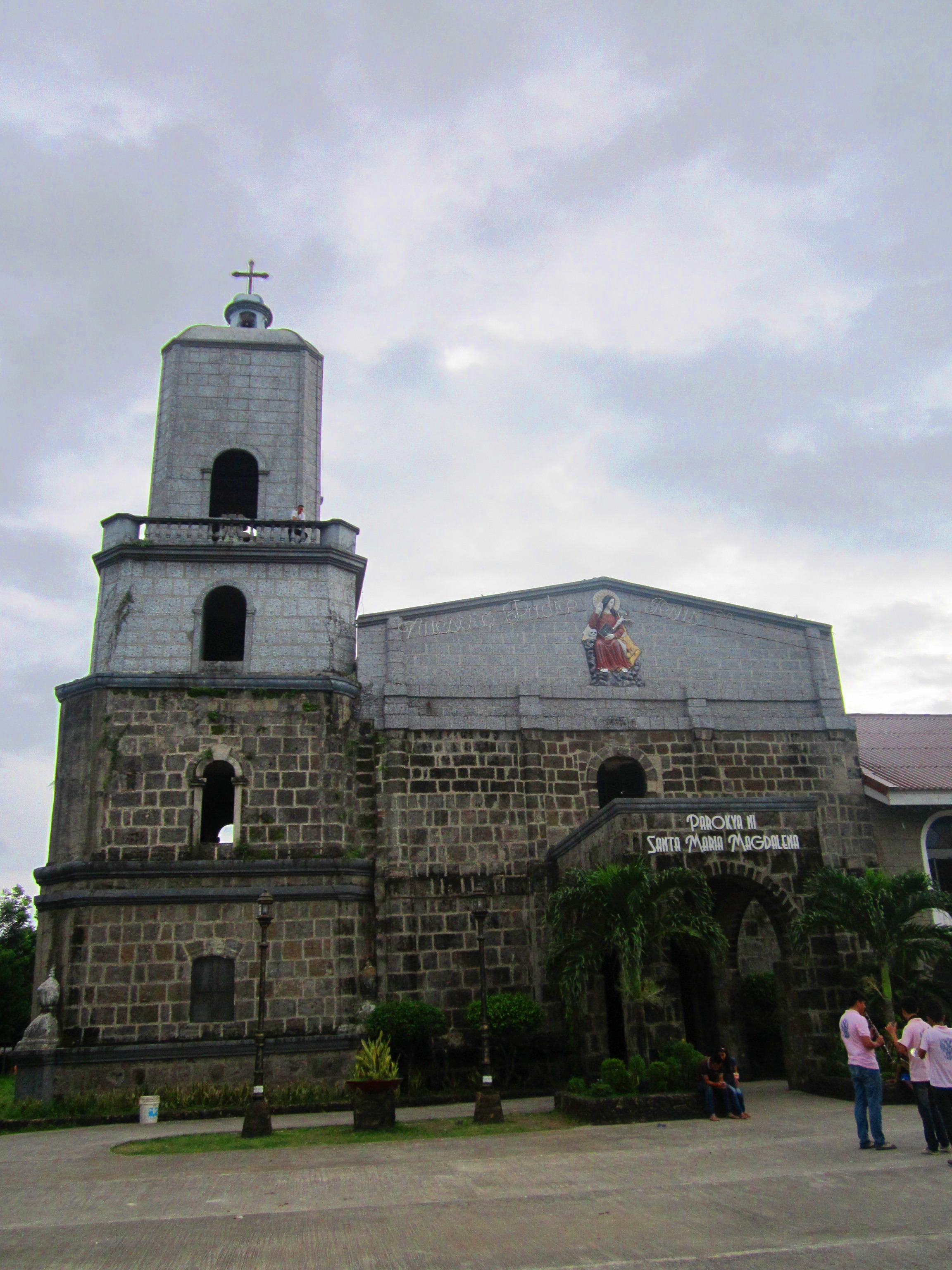 The St. Mary Magdalene Parish Church in Pililla, Rizal province.